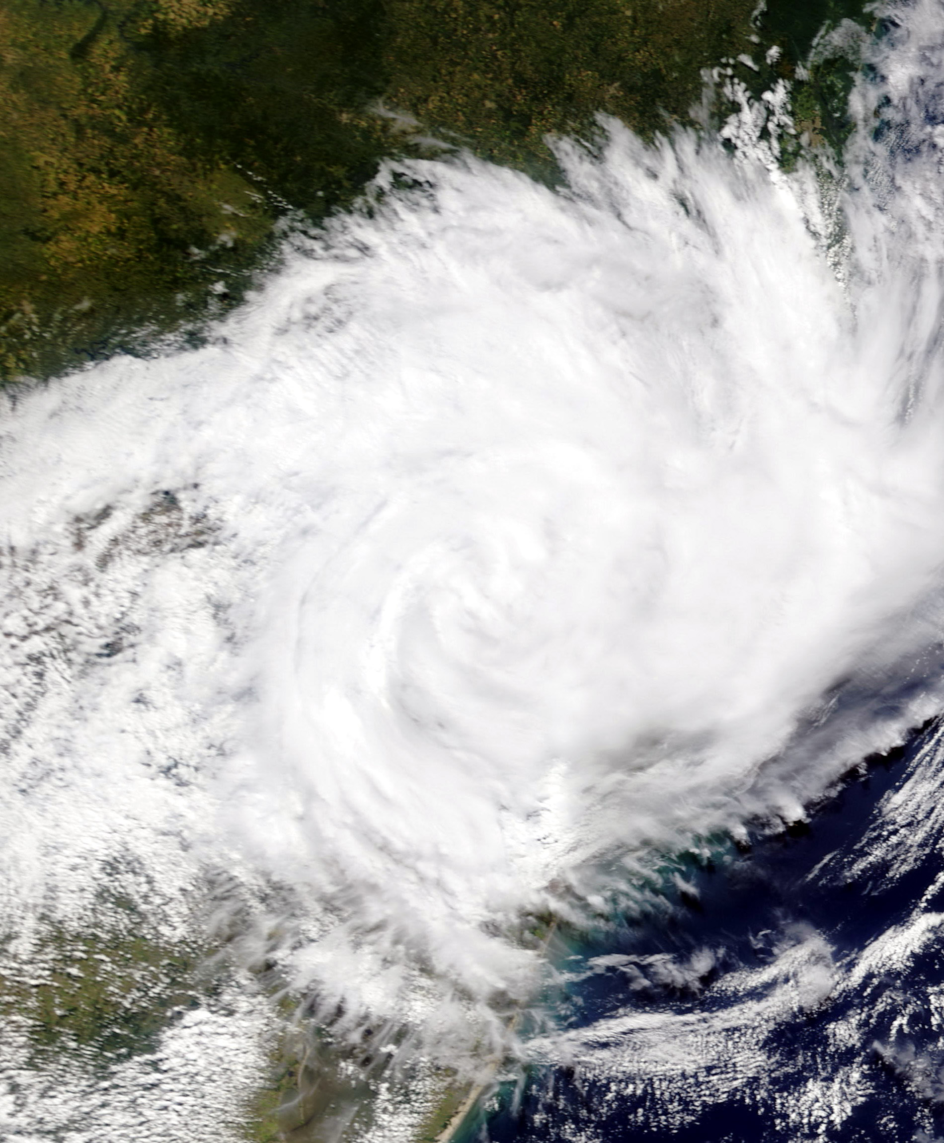 Cyclone Catarina at landfall